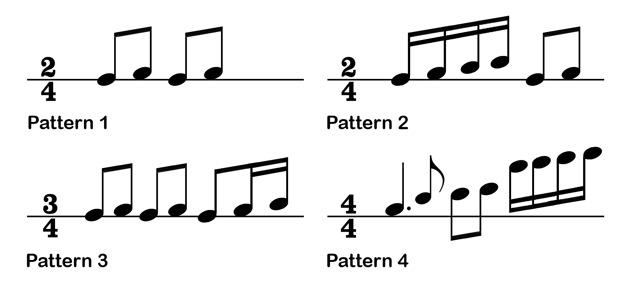 Image of typical Korean trot rhythms